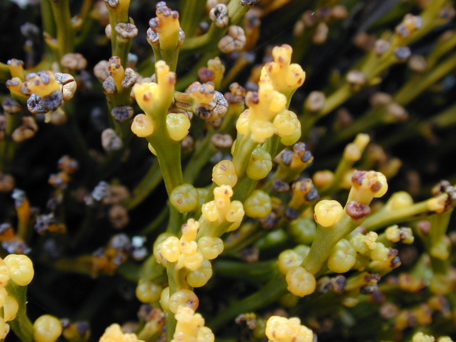 Psilotum nudum (showing sporangia). Location: Maui, Auwahi